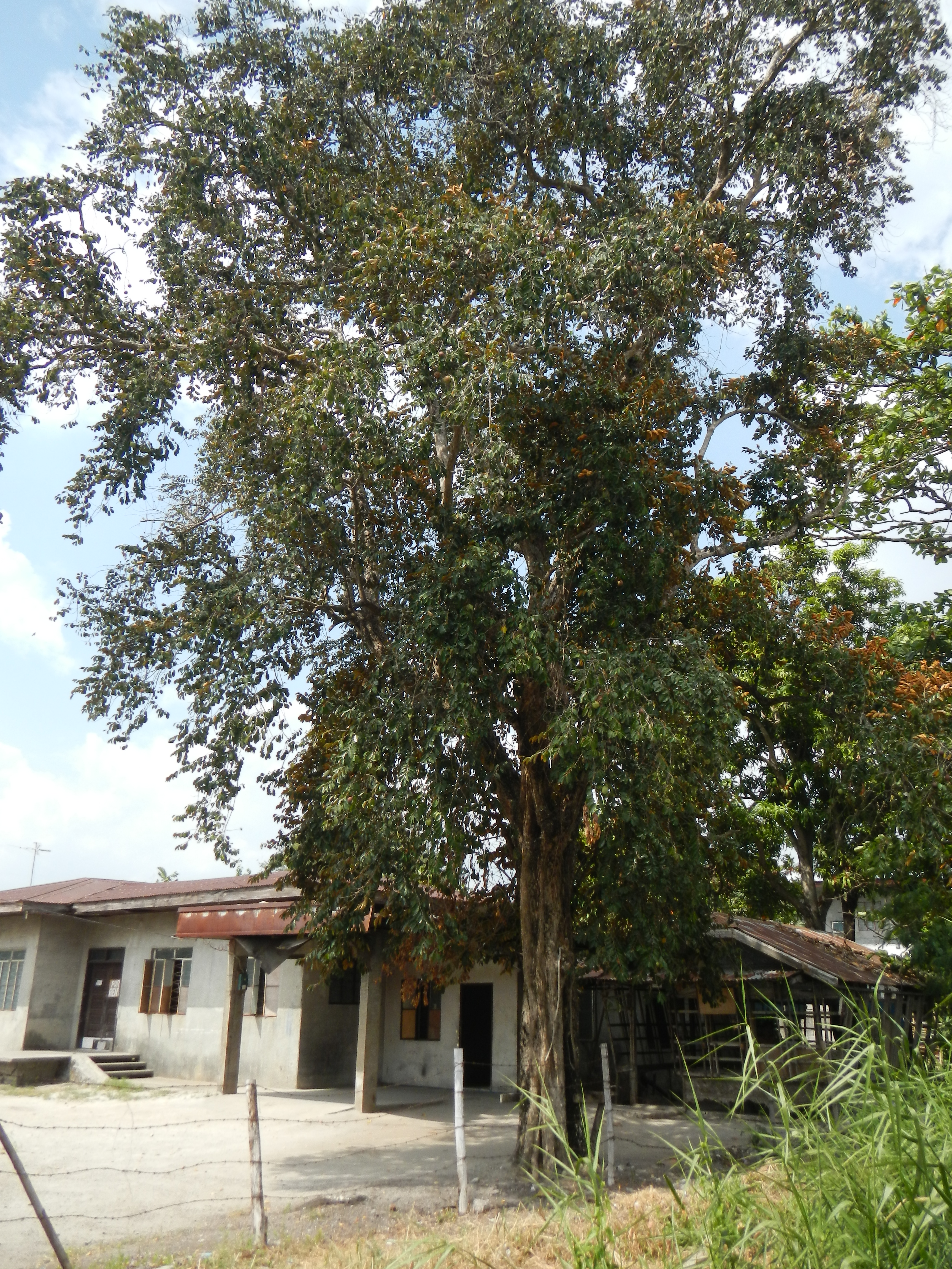 Chrysophyllum cainito tree in Barangay San Nicolas 2nd, Lubao, Pampanga.